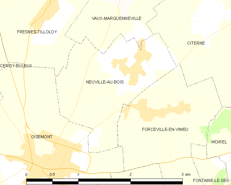 Map of French municipality Neuville-au-Bois